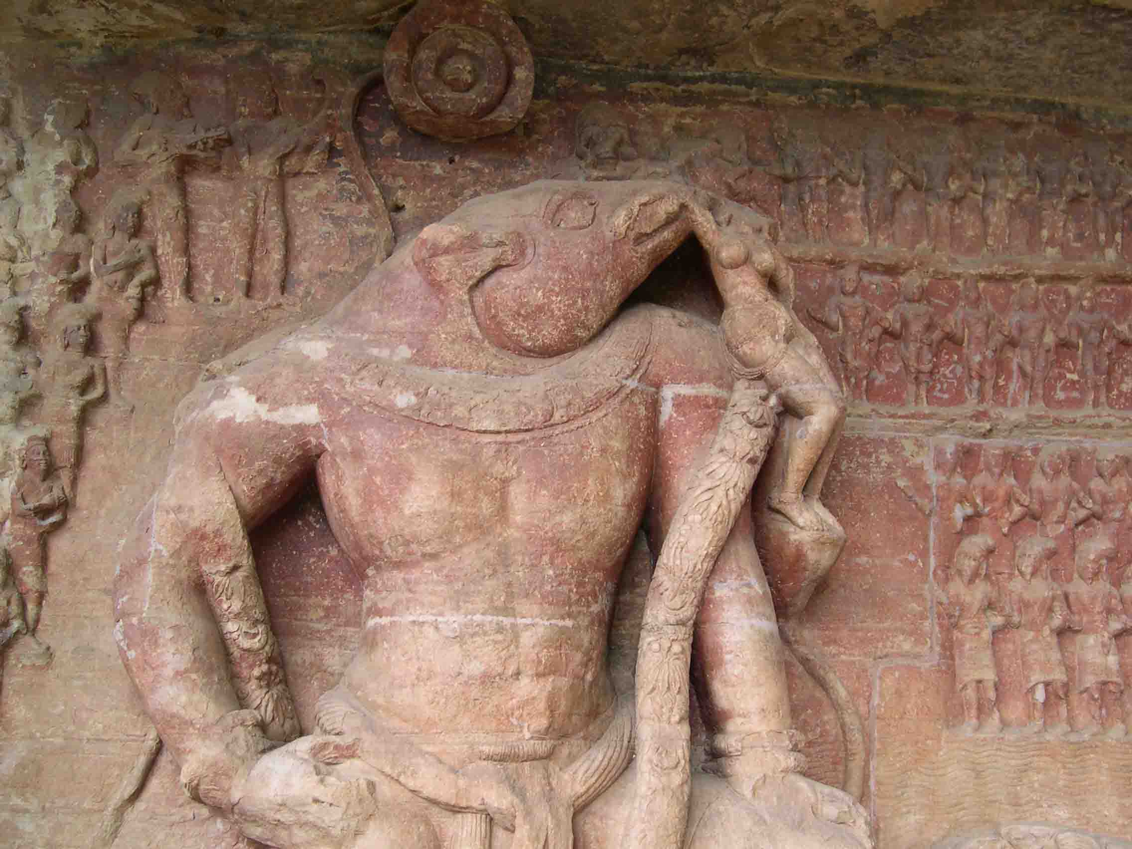 Top portion of the Varaha image, Cave 5, Udayagiri, Madhya Pradesh, India